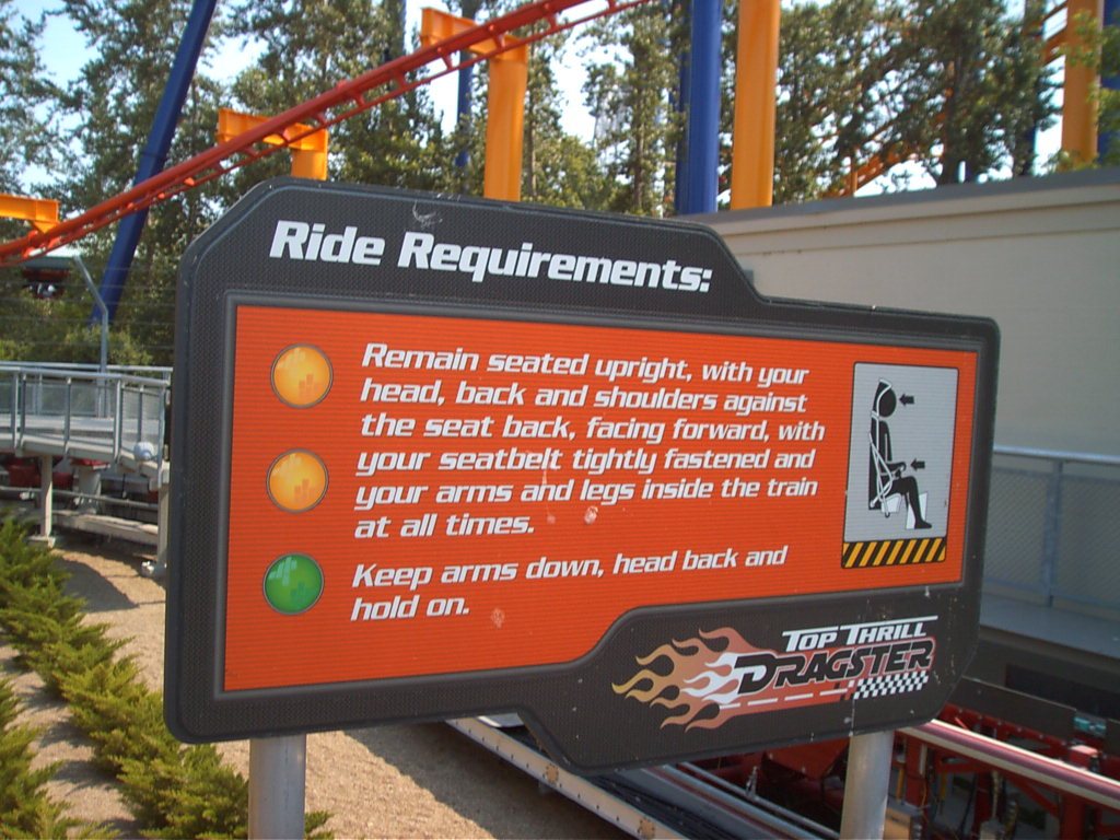 Sign listing requirements for Top Thrill Dragster amusement park ride.